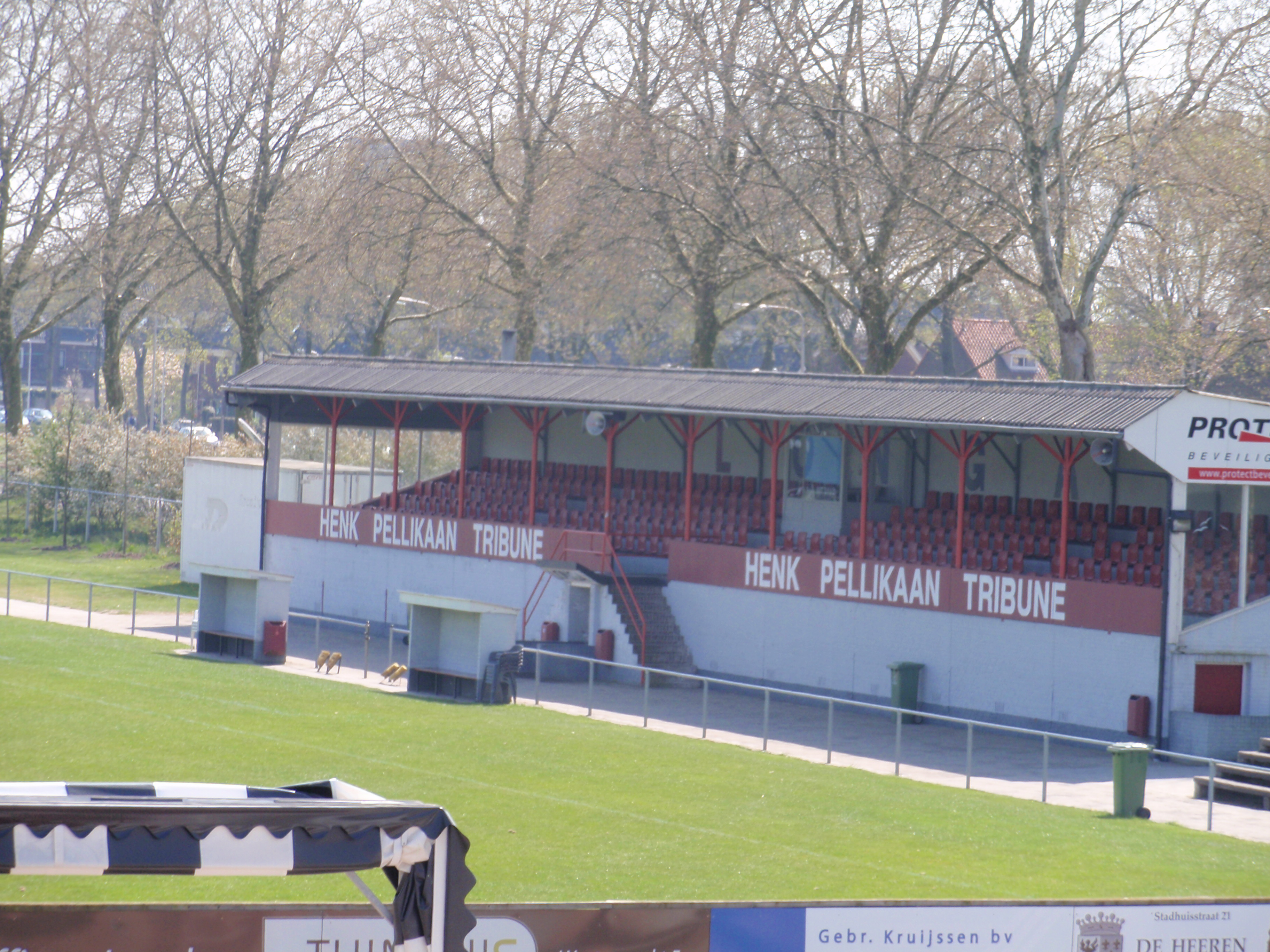 Henk Pellikaanside, TSV Longa